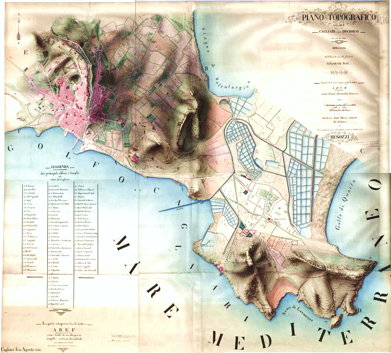 Cagliari map